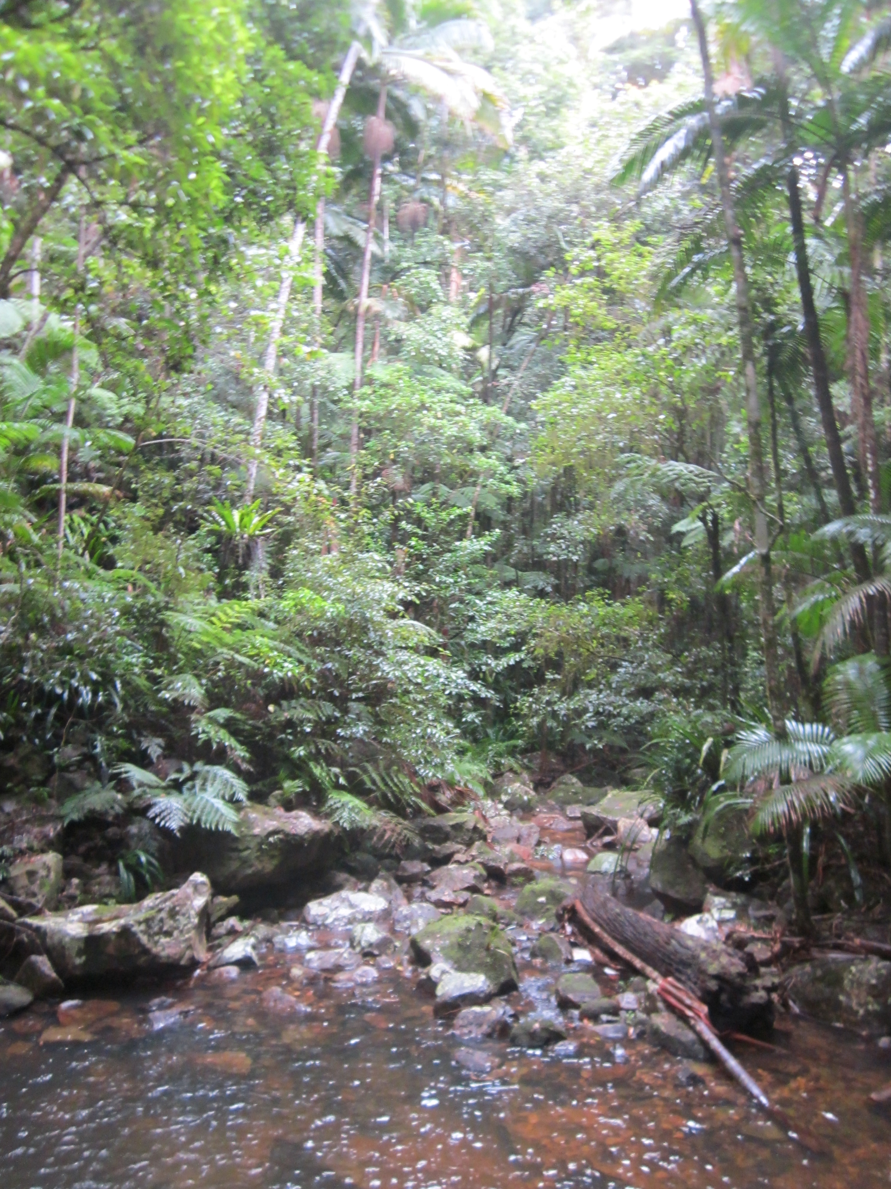 Taken at the river crossing on the Protest Falls track.